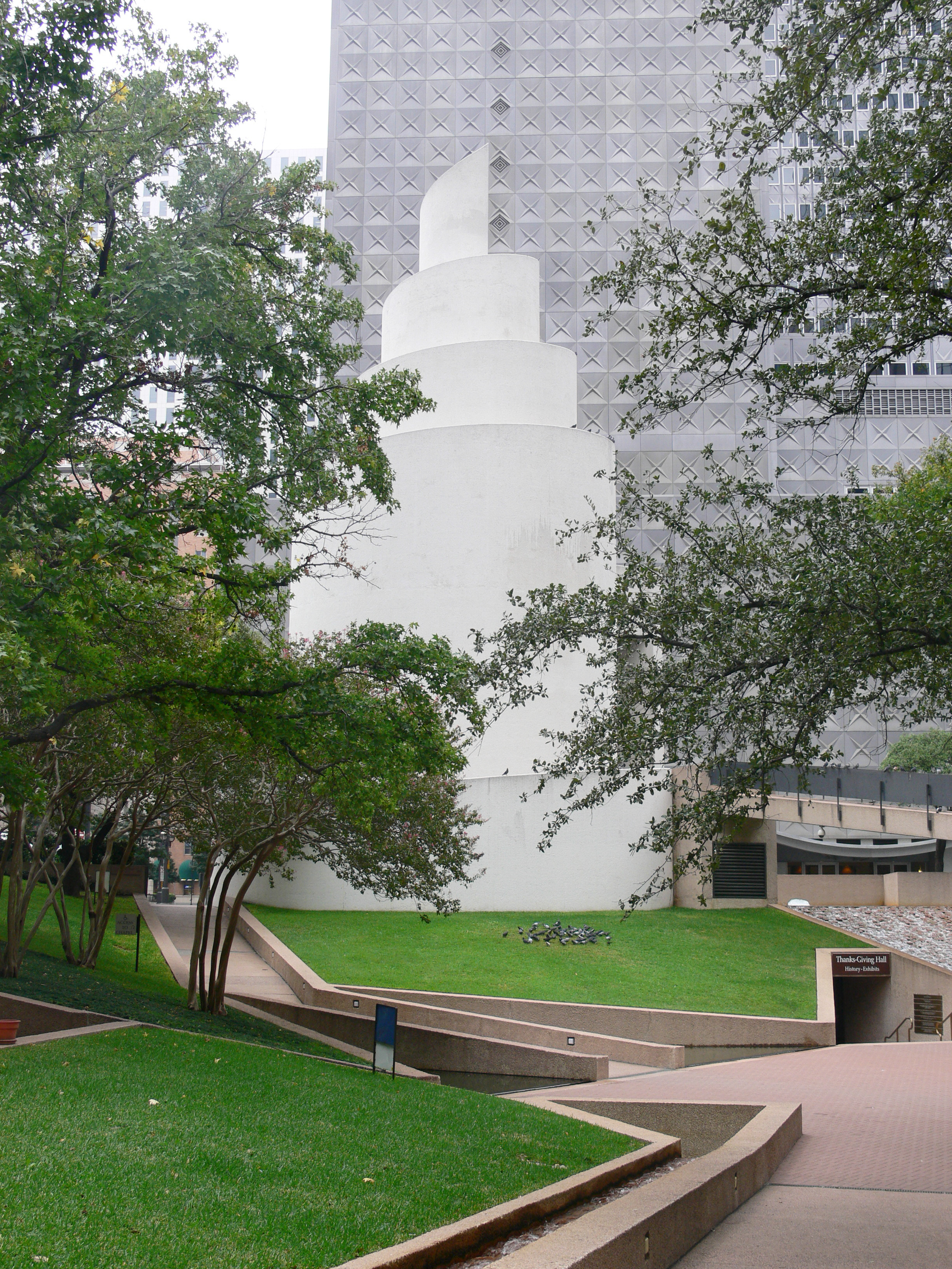 Thanks-Giving Square, Dallas, Texas Chapel of Thanksgiving